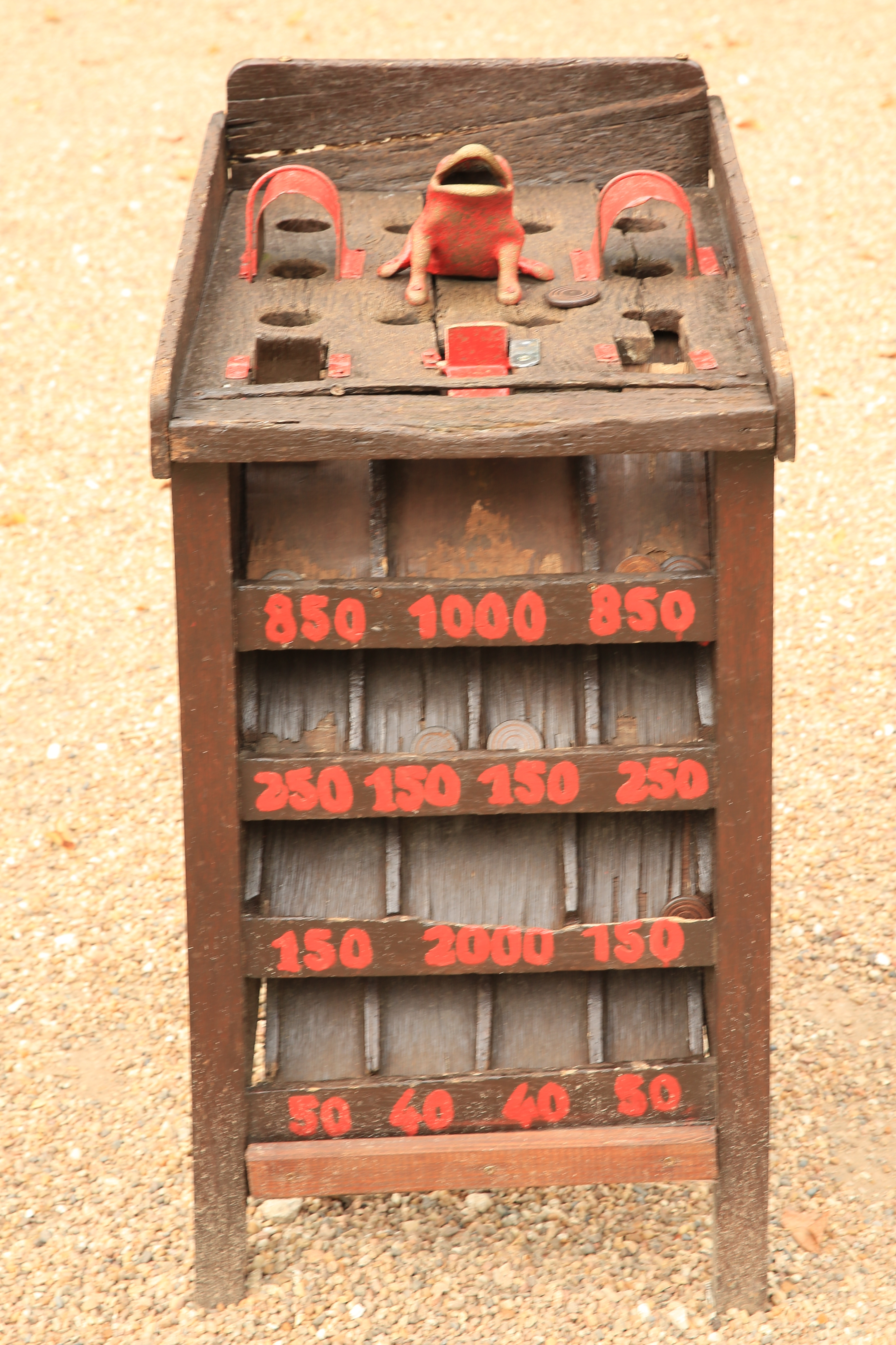 Toad in the hole.